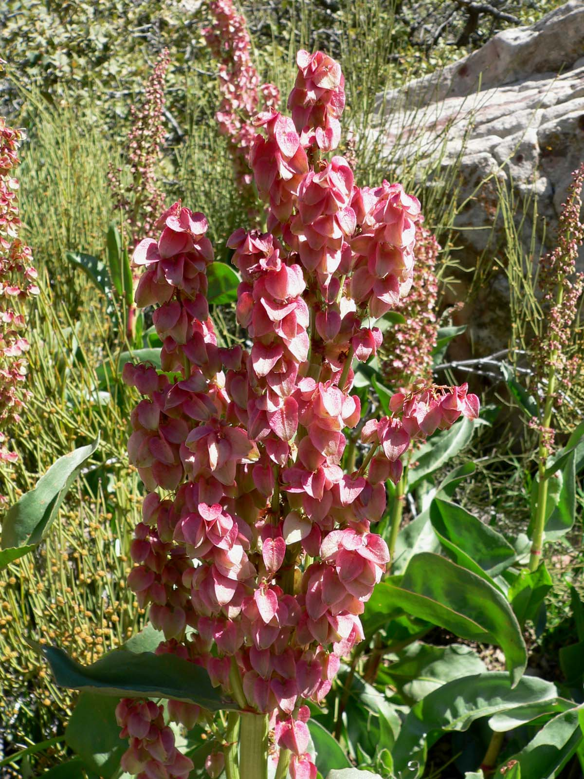 Photo of Rumex hymenosepalus (curly dock) in Red Rock Canyon, Nevada